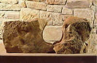 Author: Regionalmuseum Wolfhager Land placed under GNU licence with explicit permission from Wolfhagen Museum